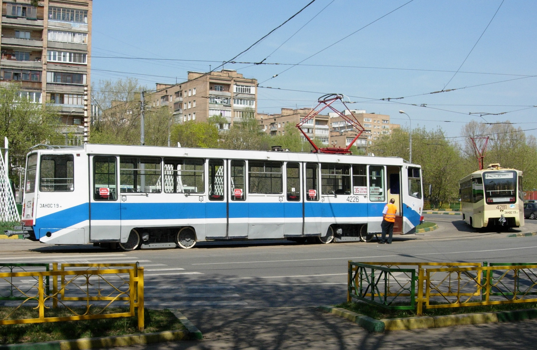 KTM-17 tram (educational) in Moscow.